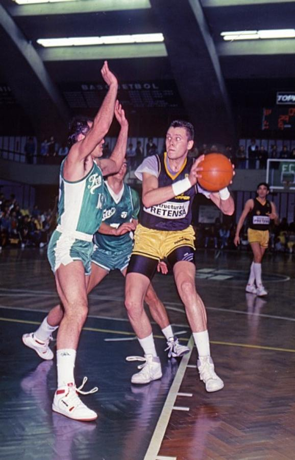 Hernán Montenegro playing for Olimpo de Bahía Blanca